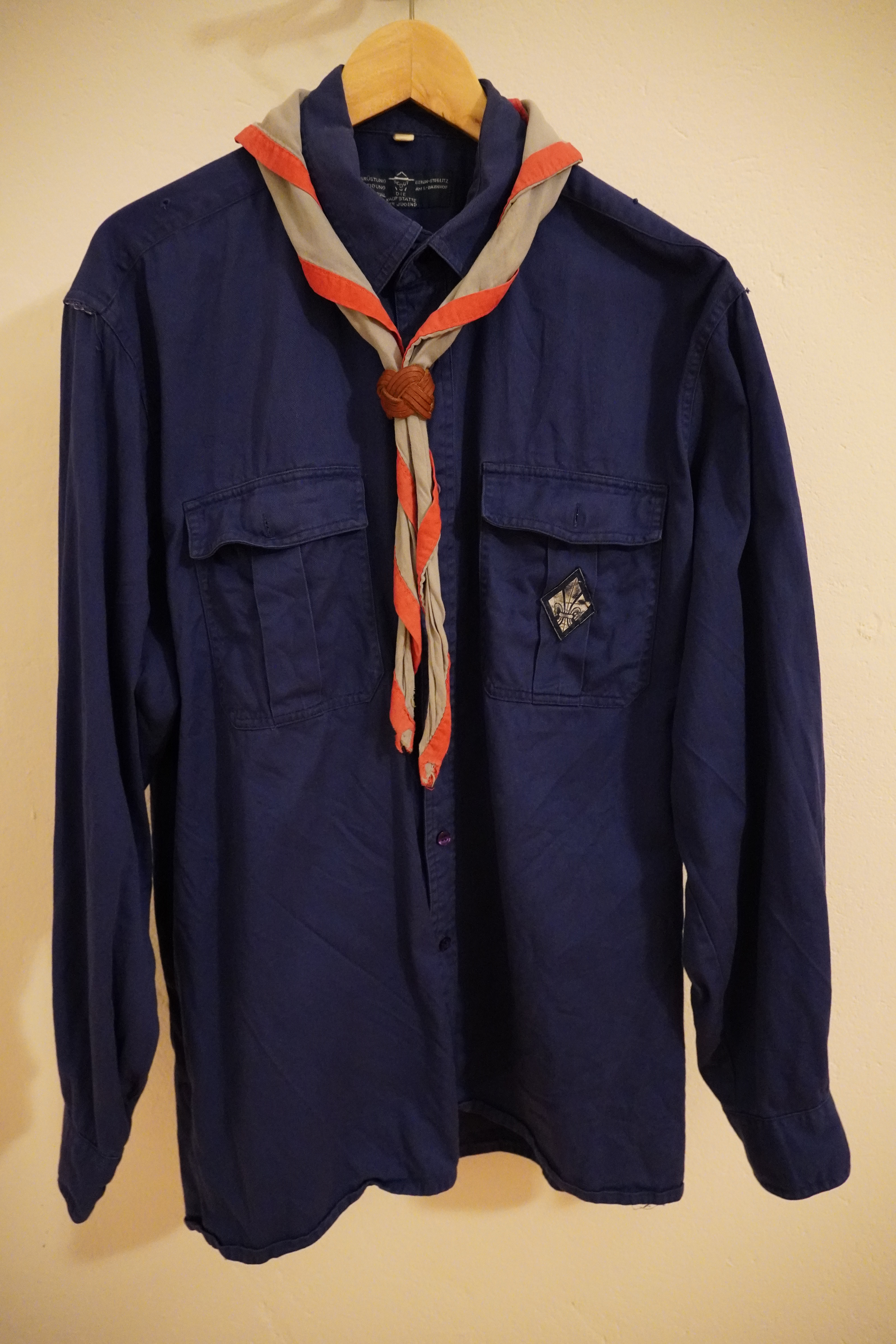 100/5000 The typical blue shirt of the DPB with gray-red neckerchief and with the lily on the breast pocket.